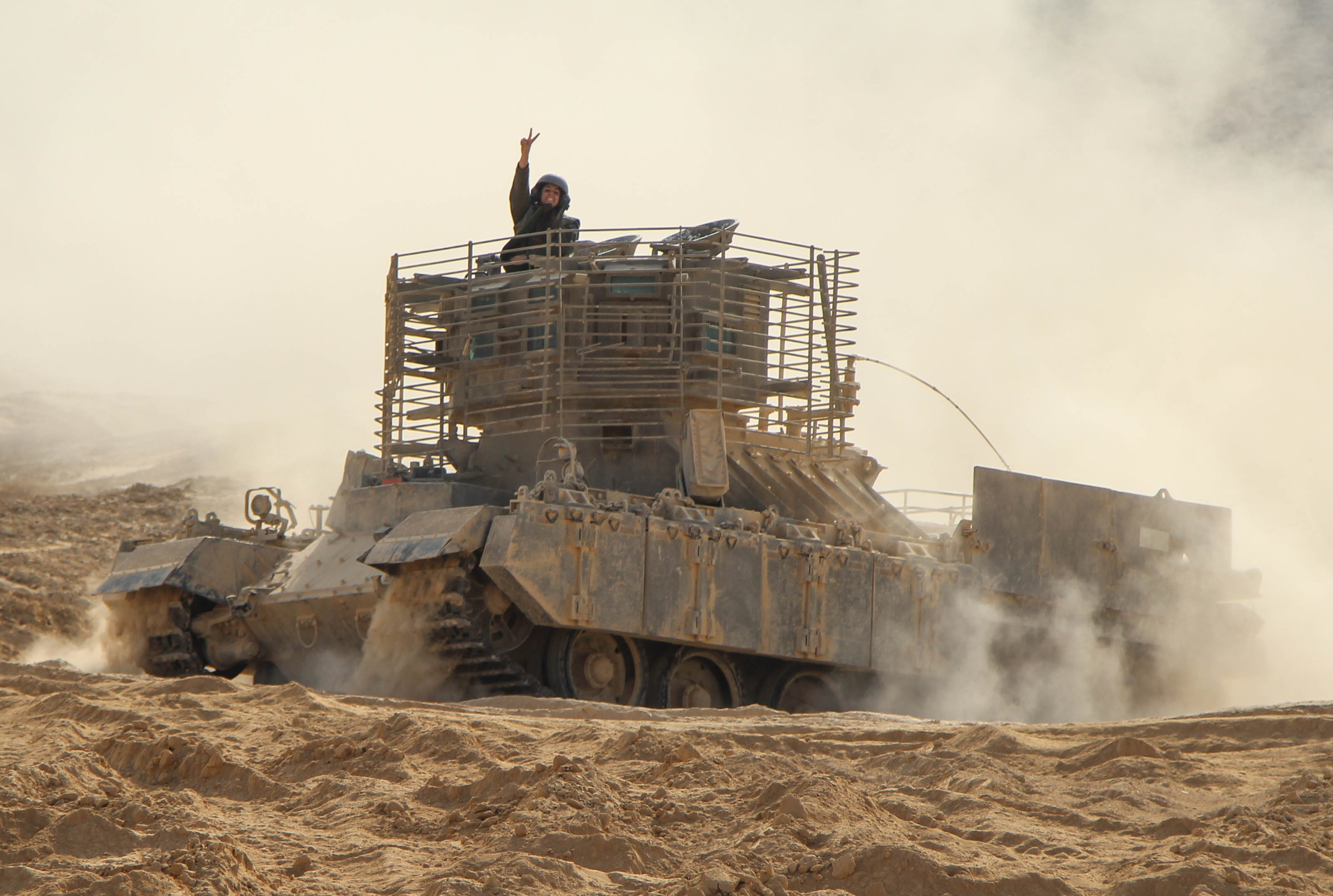 IDF Nagmachon armored personnel carrier